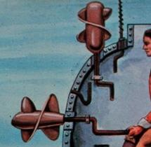 Selected out of original Wiki image by Gerald Zuckier.